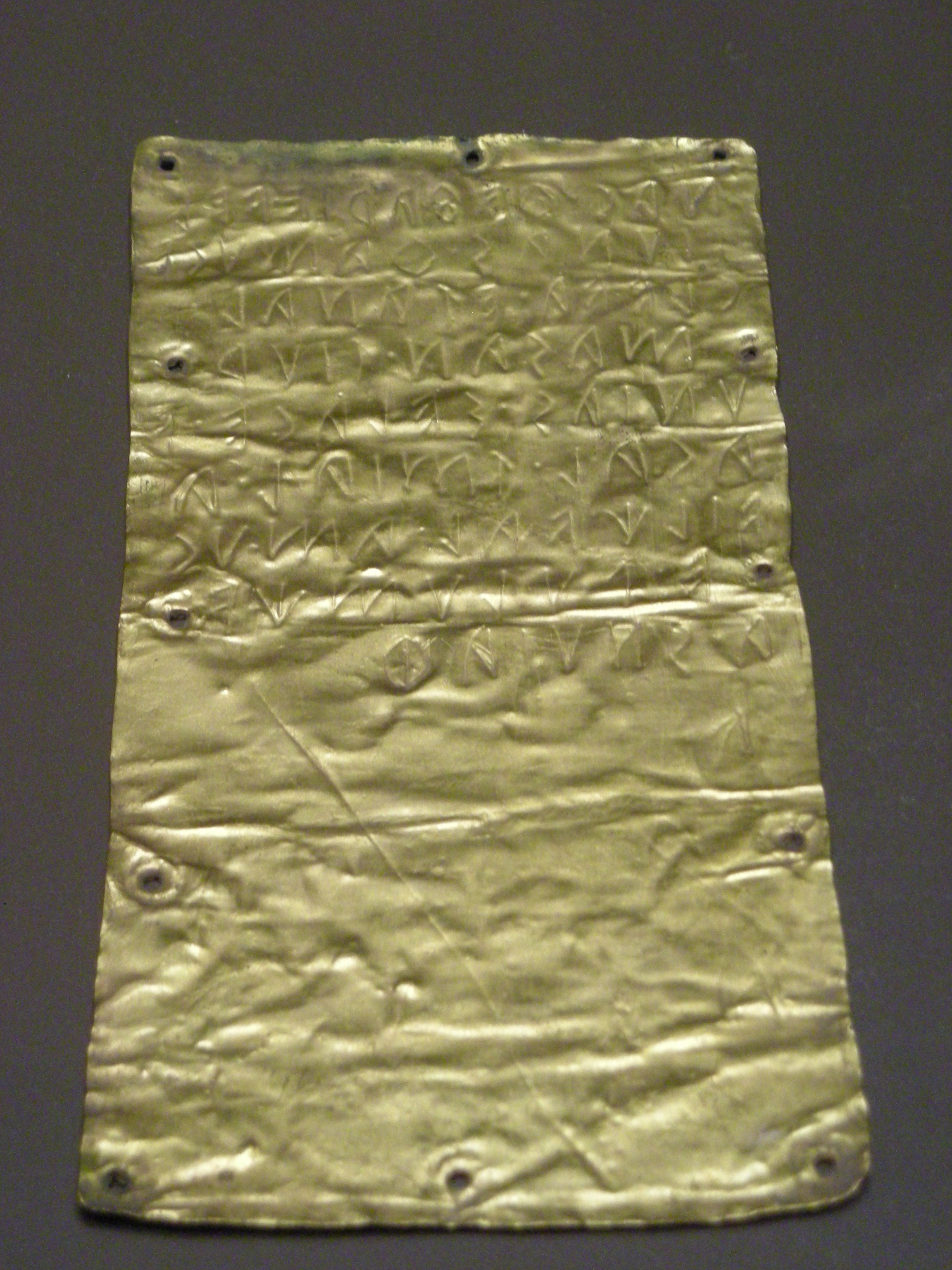 "Pyrgi tablets". Laminated sheets of gold with a treatise both in Etruscan and Phoenician languages. From Etruscan Museum in Rome (Museo di Villa Giulia). Photos taken in Caixa Forum (Madrid).